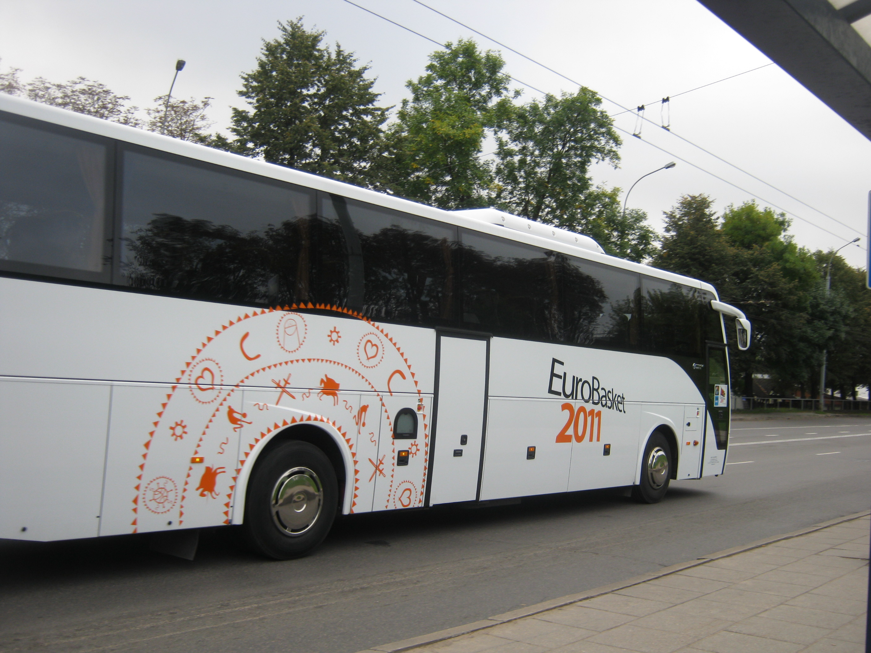 Temsa coach in Vilnius, Lithuania. Slovenian Team coach - Eurobasket 2011.